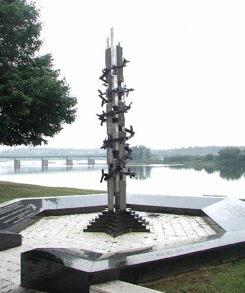 Holocaust Memorial for the Commonwealth of Pennsylvania (1994), Harrisburg, Pennsylvania USA, on the Susquahanna River. Fabricated stainless steel, weathering steel, and granite. By the American sculptor David Ascalon. Photograph by Eric Ascalon. May reproduce, but written attribution to David Ascalon as sculptor and Eric Ascalon as photographer required in all cases. I am the photographer and copyright holder of this image and grant license under GFDL. Permission: OTRS Ticket#: 2006042610000487